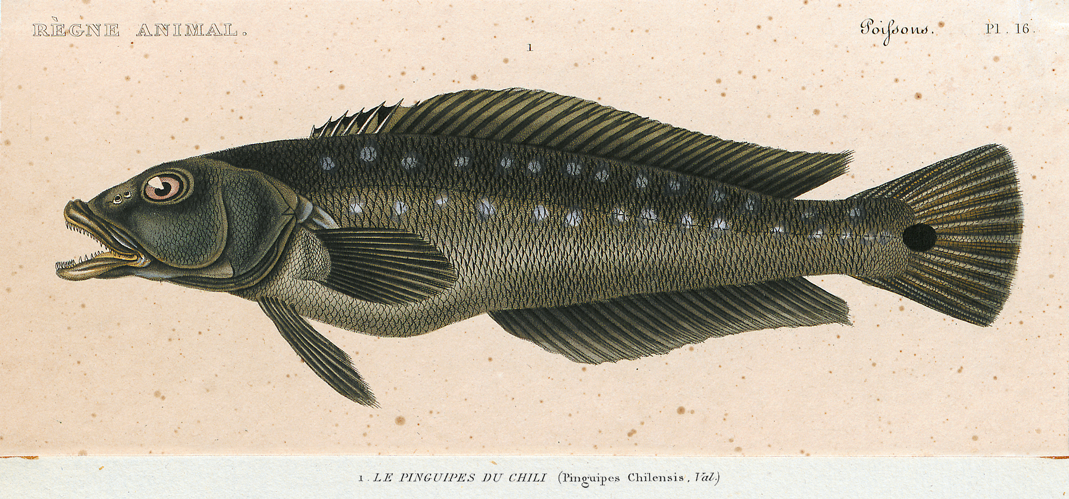 Pinguipes chilensis. Image cropped and edited from this Public Domain scan of Plate 16, Poissons, Le Règne Animal (Georges Cuvier): Special Collections University of Amsterdam - UBA01 IZ13200085